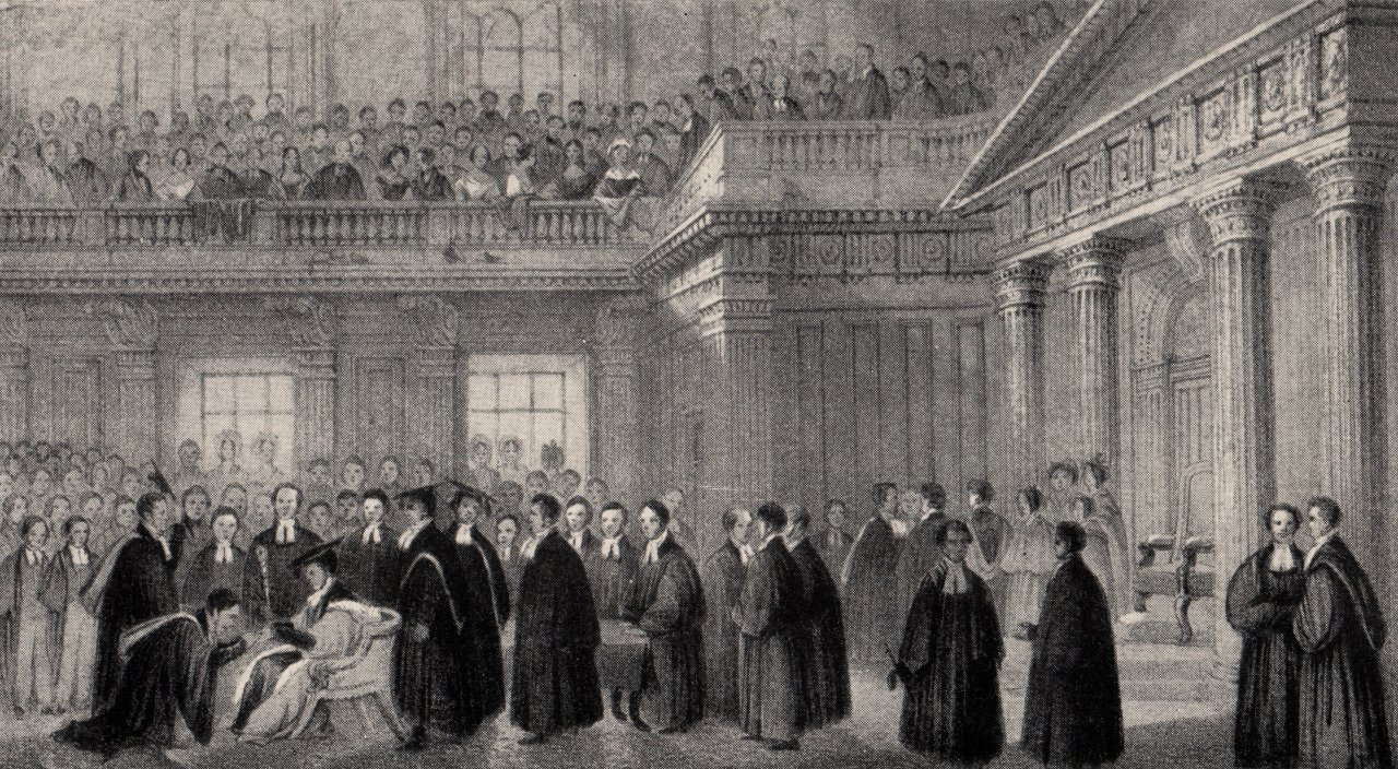 Admission of the Senior Wrangler in 1842